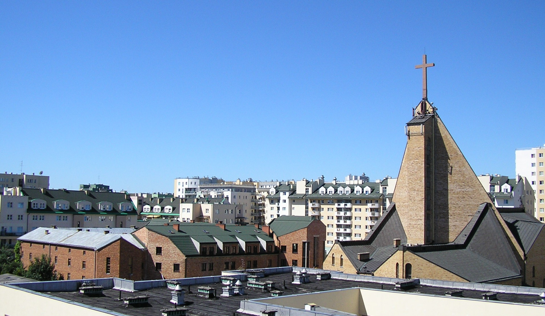 Church Matki Bożej Królowej Aniołów in Warsaw district Bemowo